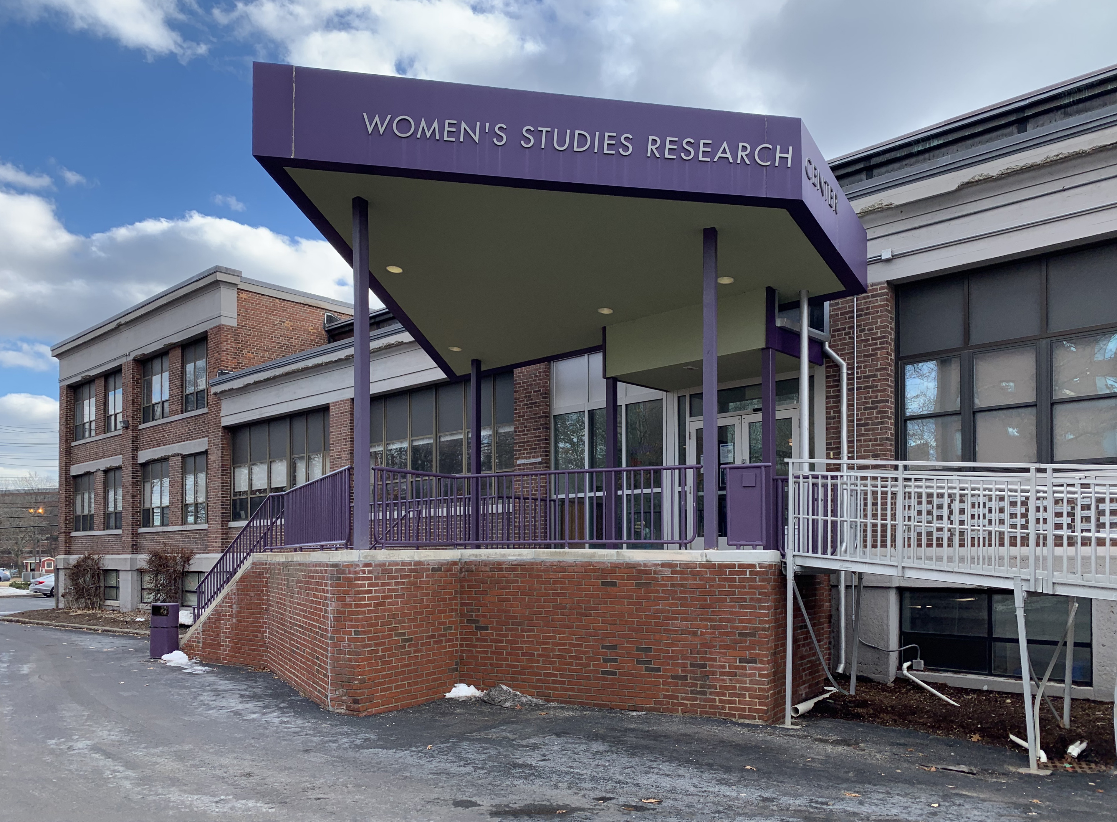 Brandeis University Womens Studies Research Center, in the Epstein Building. Waltham, Massachusetts.